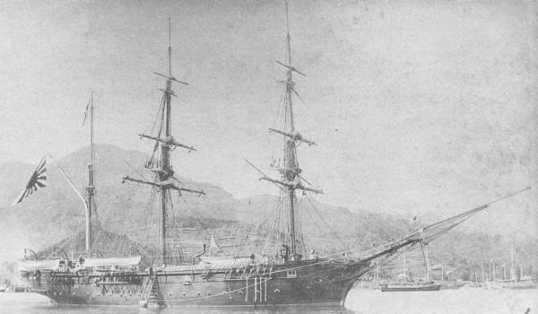 MANJU, training ship of the Imperial Japanese Navy.